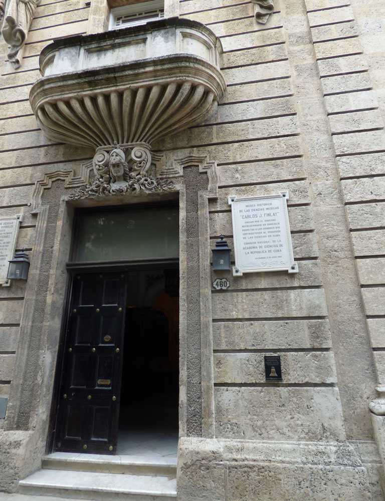 These photos of the Finlay Medical History Museum were taken in January, 2016.